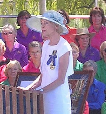 Her Excellency Quentin Bryce, AC officiating at an Australia Day ceremony in Canberra. She is wearing the decoration of the Companion of the Order of Australia.